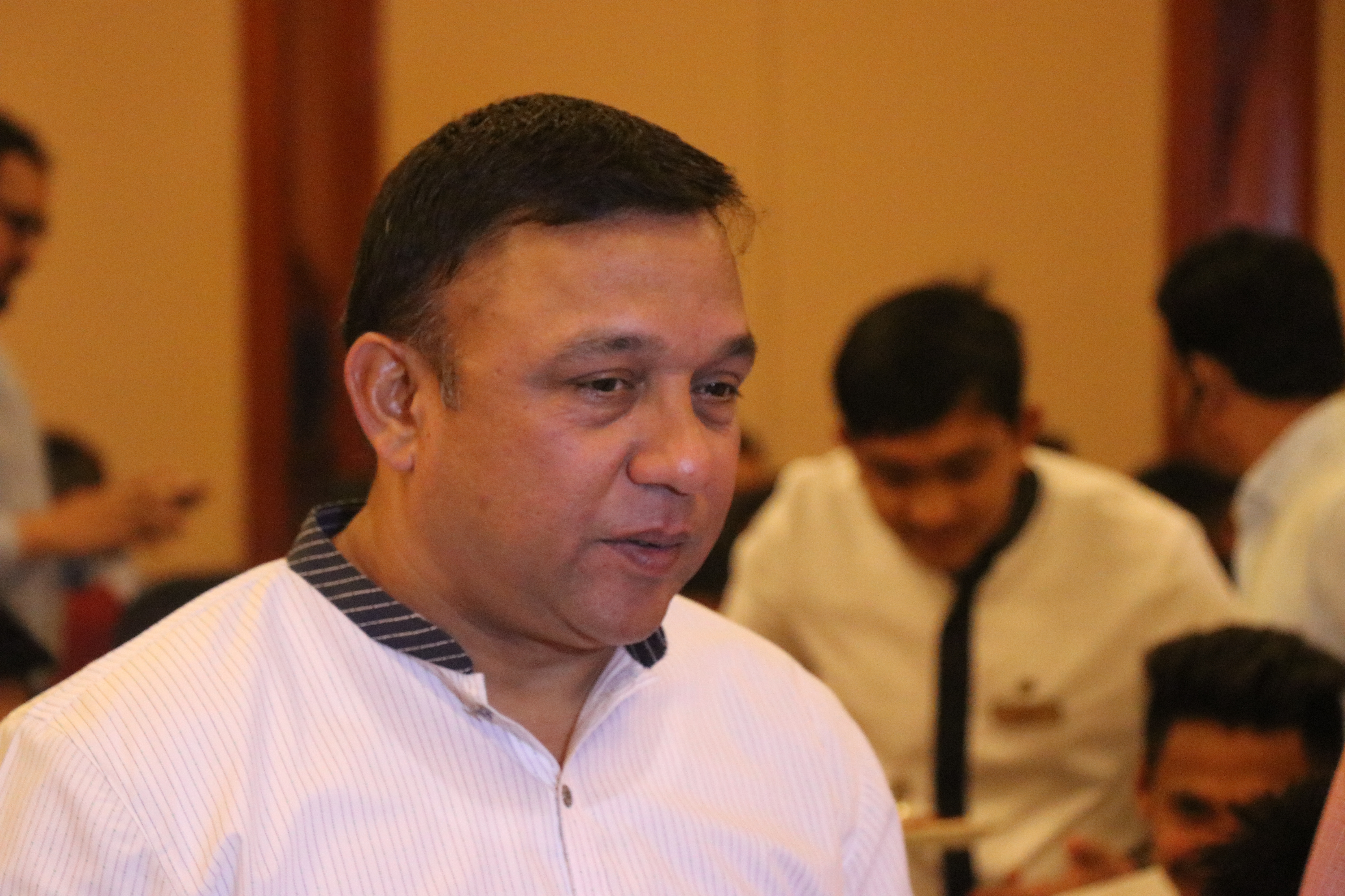 Khaled Mahmud Sujon, the former Bangladesh National Team player